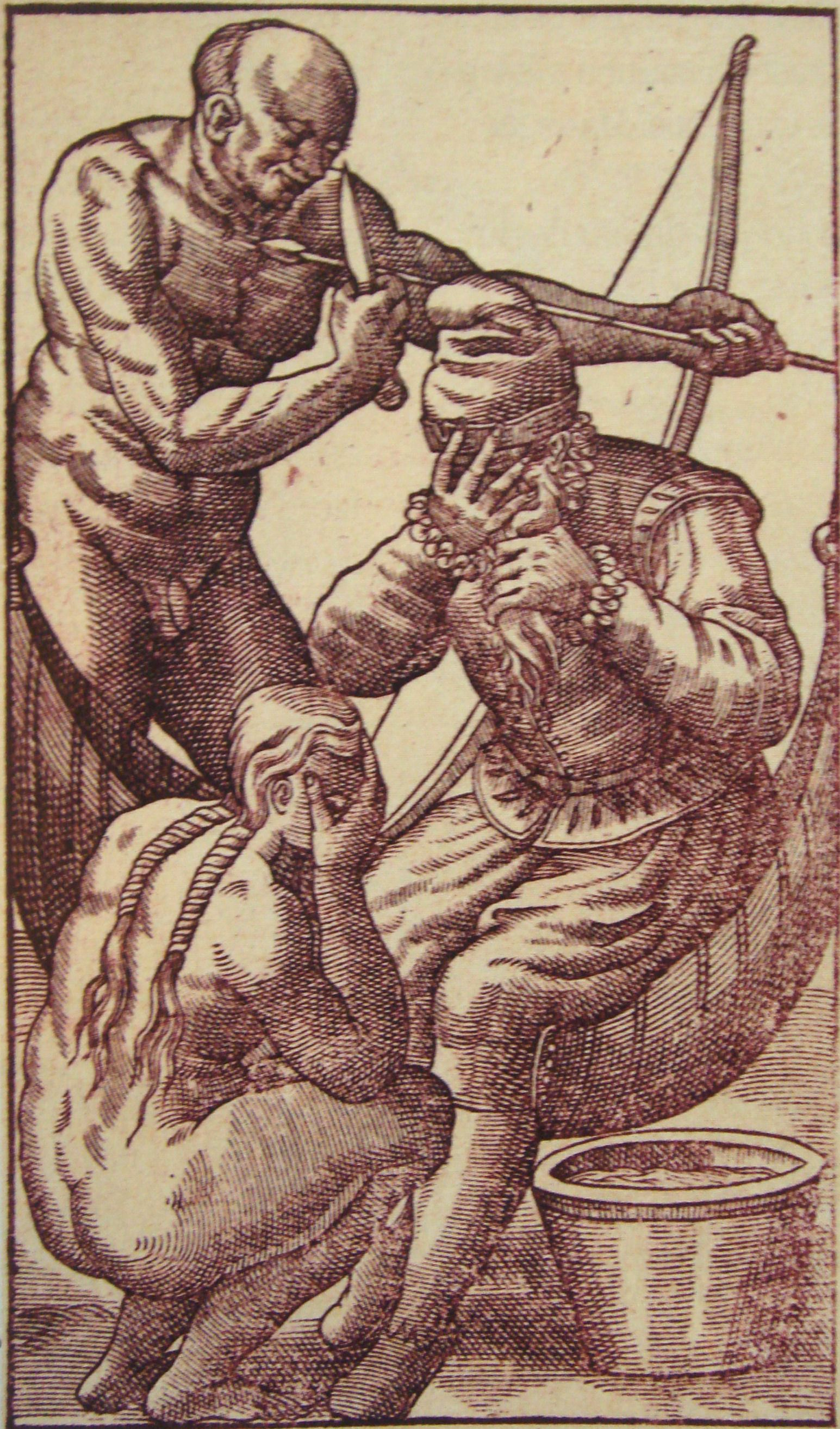 Tearful_salutations_in_Histoire_d_un_voyage_fait_au_Bresil_1580